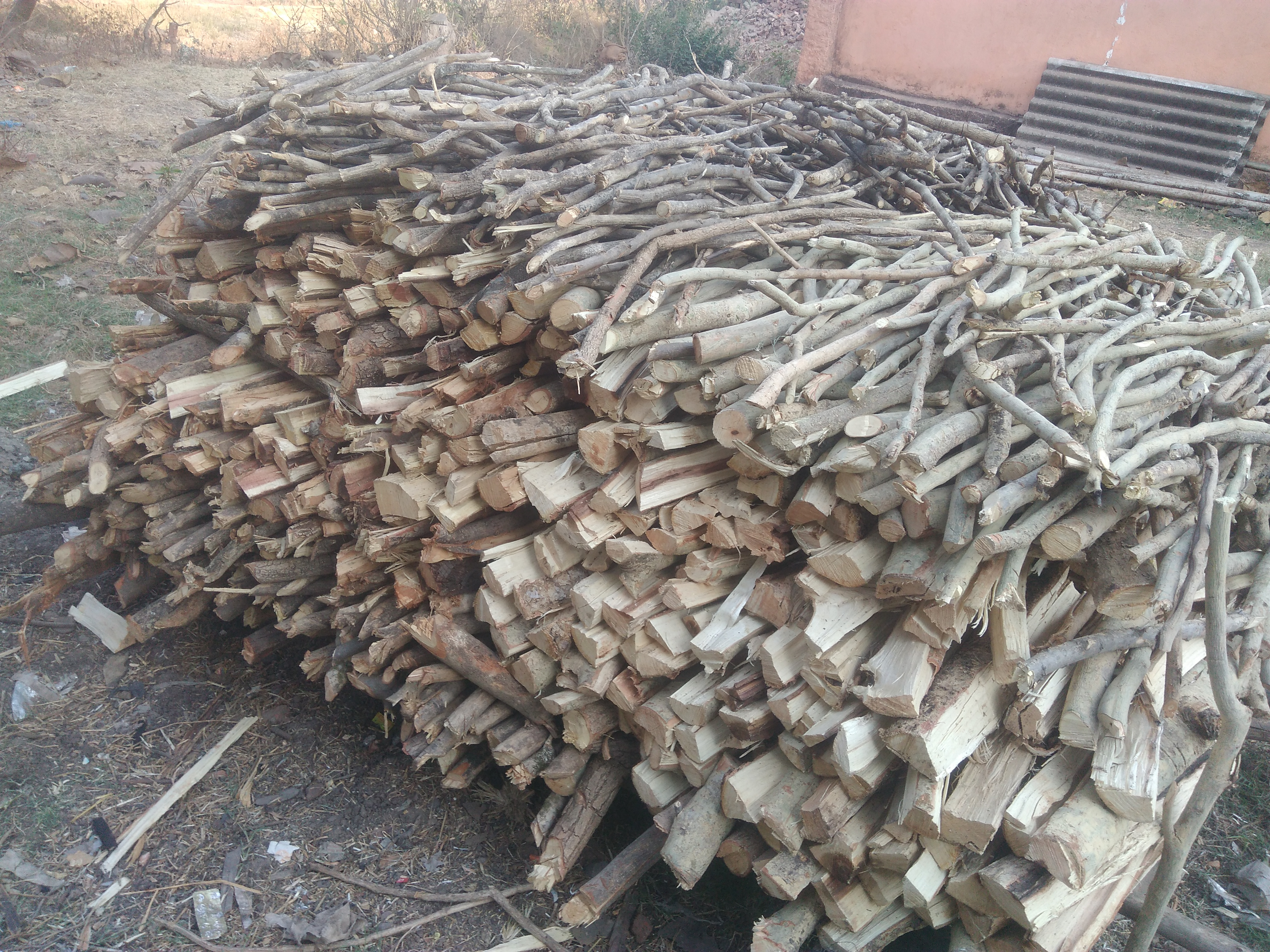 लाकूड-फाटा